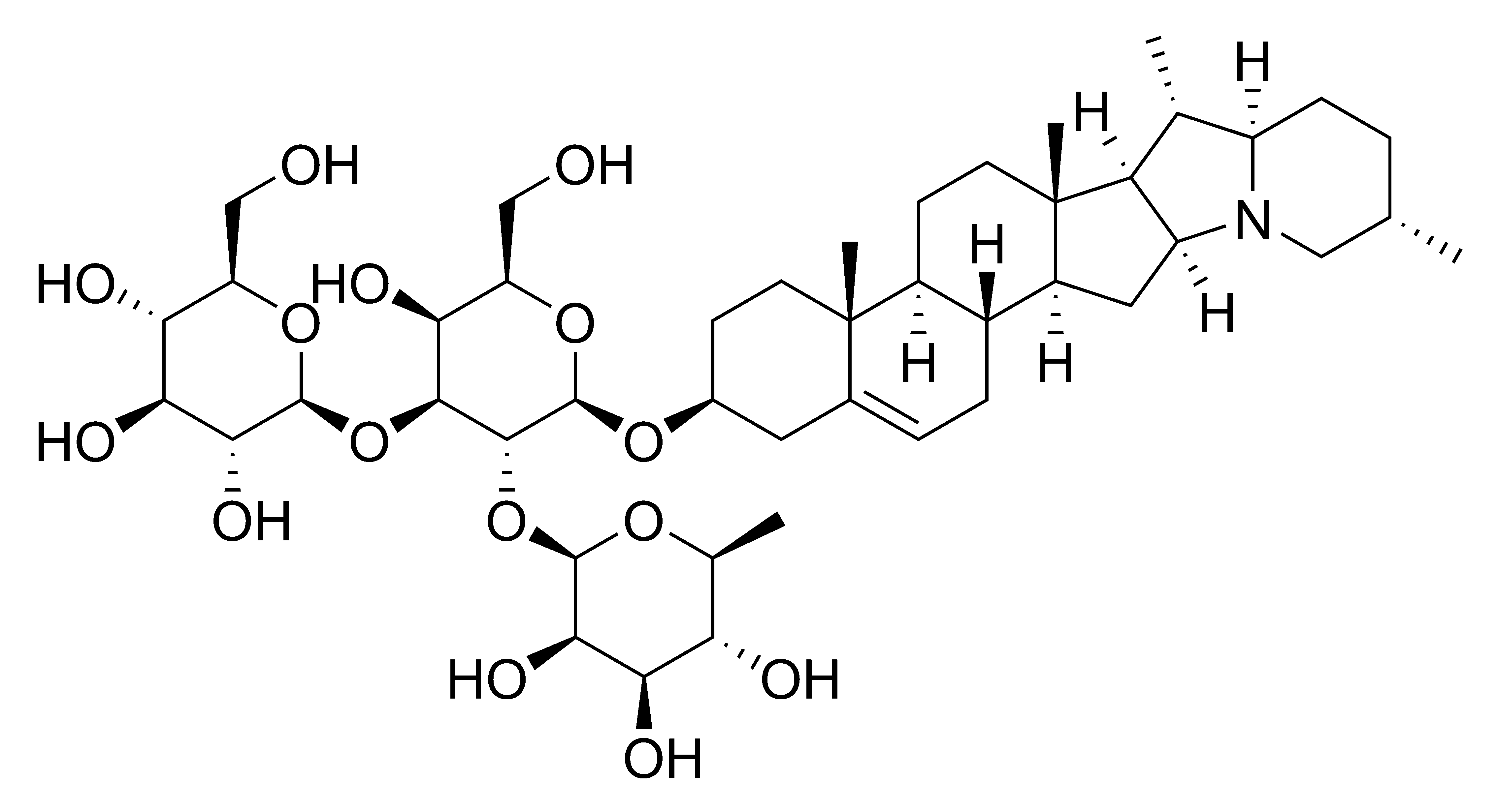 Chemical structure of alpha-solanine, an example of a monodesmosidic, branched-chain steroidal saponin (Hostettmann & Marsden 1995).